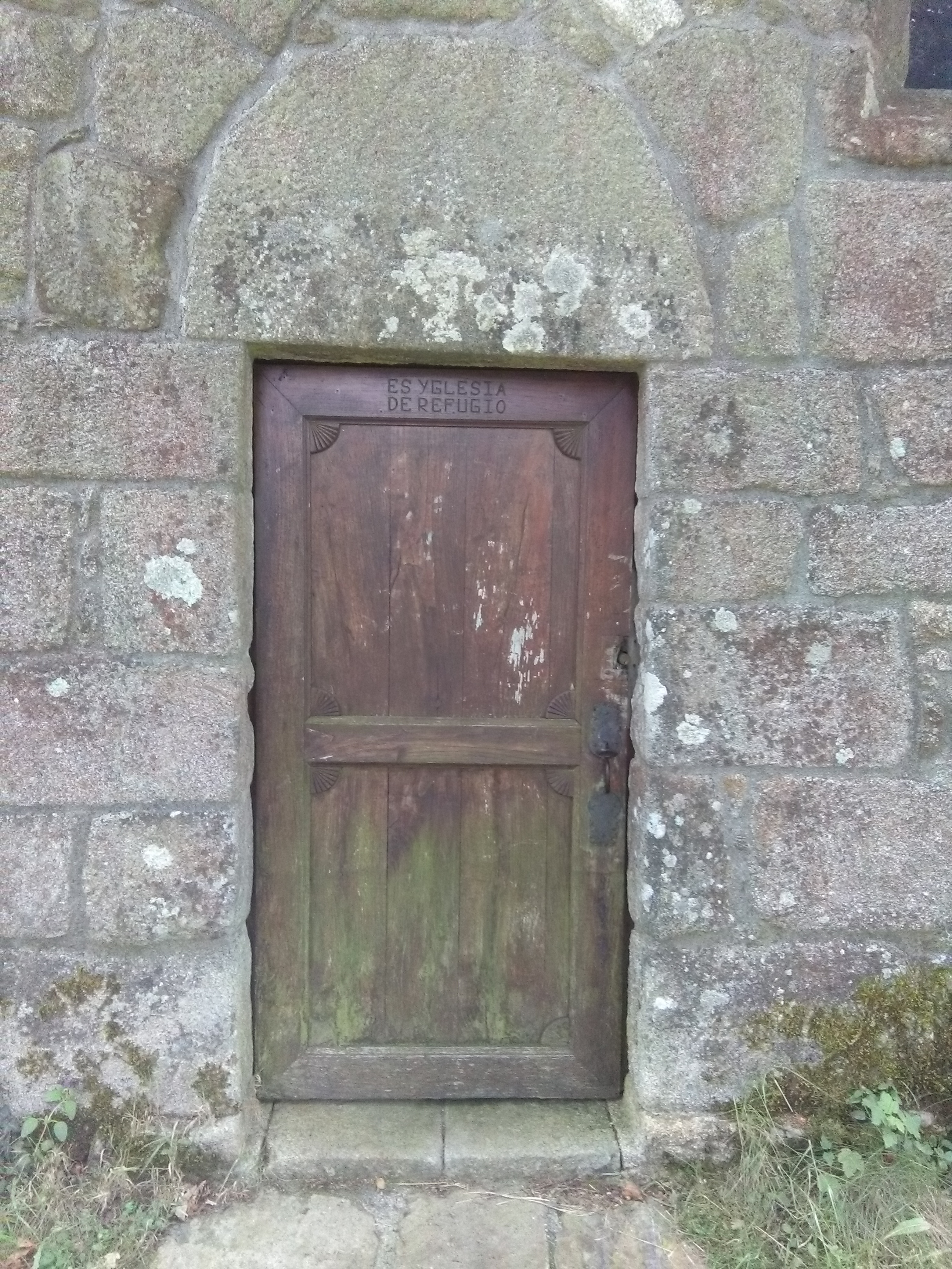 Side door of the Santa María da Balsa church in the municipality of Muras, Lugo province (Spain). On the top of the door is written "ES YGLESIA DE REFUGIO"